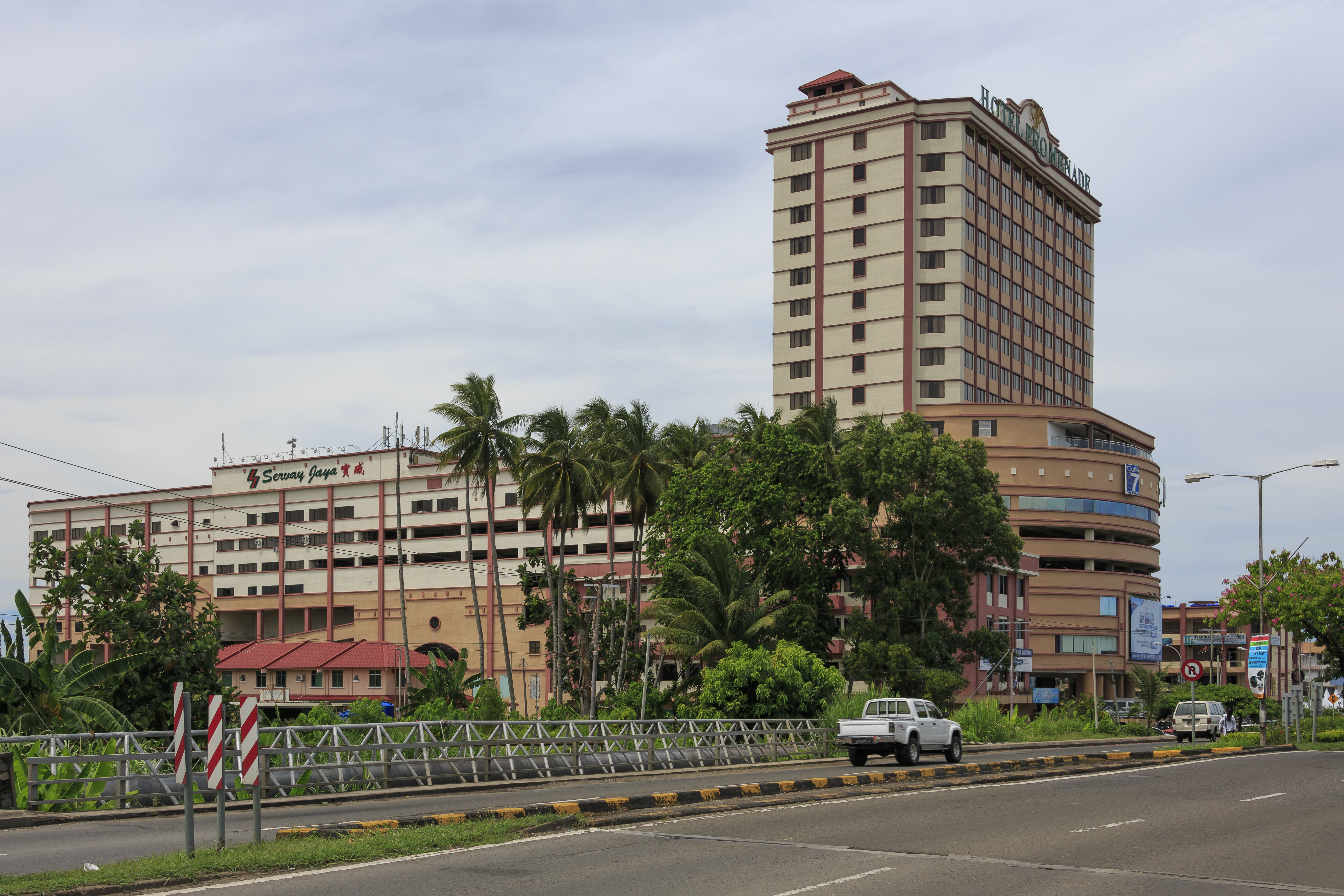 Tawau, Sabah: Eastern Plaza, the biggest mall in Tawau branch. Including Serway Jaya Supermarket and Hotel Promenade )